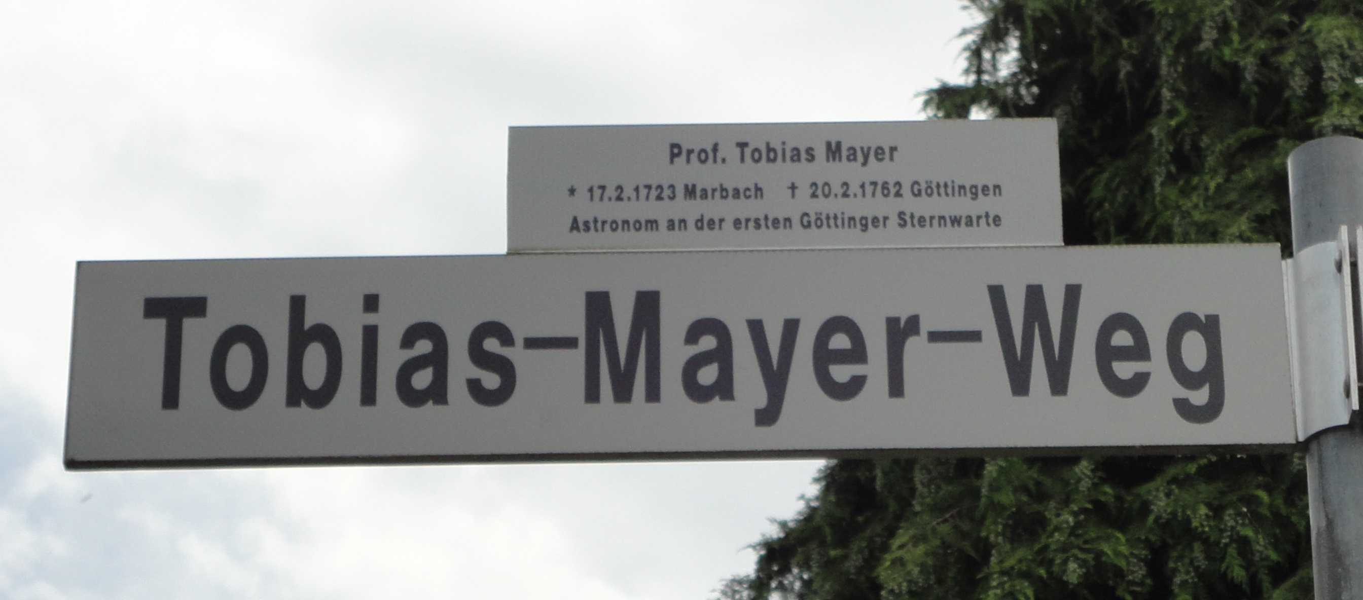 Göttingen-Weende, road sign Tobias-Mayer-Weg